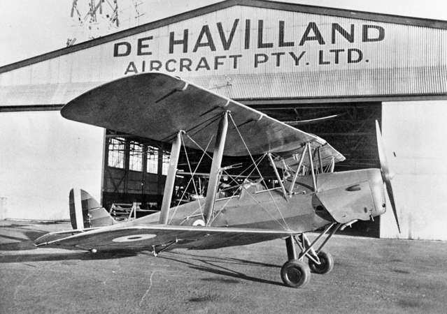 Australia: New South Wales, Sydney, Mascot. Starboard view of A17-32, a DH82 Tiger Moth aircraft at the entrance to the De Havilland Aircraft Pty Ltd hangar at Mascot, NSW, just prior to its delivery to the RAAF. The red, white and blue roundels indicate pre Pacific War livery.